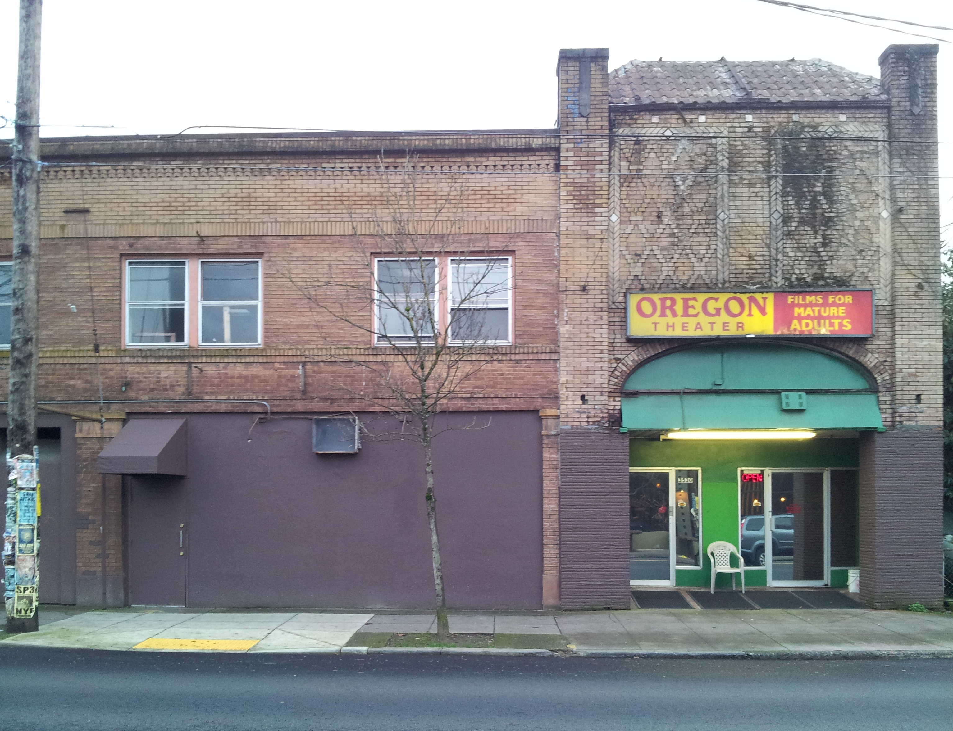 Oregon Theatre, Portland (2014)